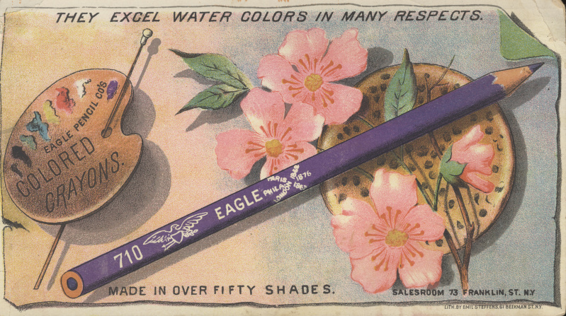 Persistent URL: Subject (TGM): Artists' materials; Pencils; Flowers; Bazaars; Shoe stores; Keywords: Water colors Colored crayons